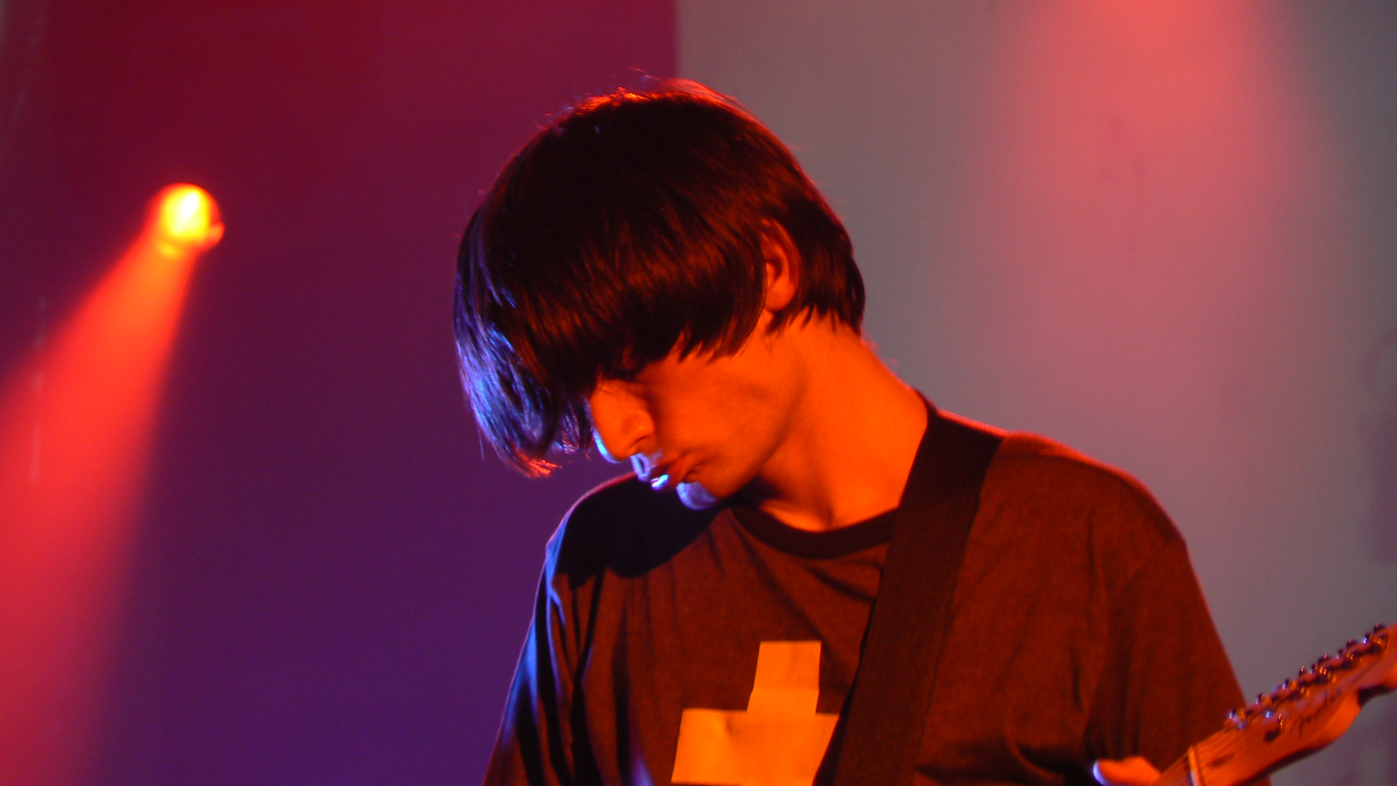 radiohead at heineken music hall, may 9